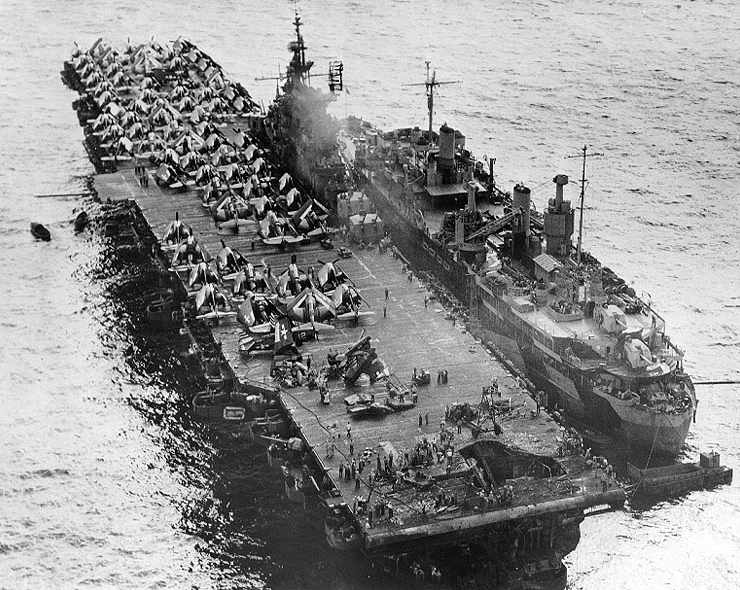 The U.S. Navy aircraft carrier USS Randolph (CV-15) alongside repair ship USS Jason (ARH-1) at Ulithi Atoll, Caroline Islands, 13 March 1945, showing damage to her aft flight deck resulting from a kamikaze hit on 11 March. The photograph was taken from a floatplane from the light cruiser USS Miami (CL-89).